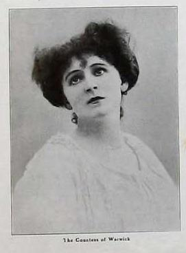 Daisy Greville, Countess of Warwick